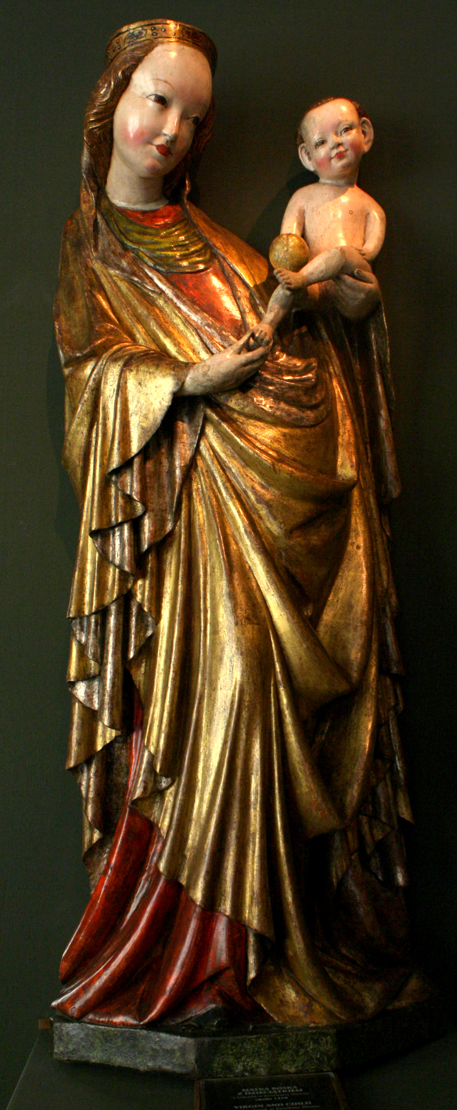 Gothic Madonna of Krużlowa (Cracow, National Museum, Palace of Edward Ciołek)